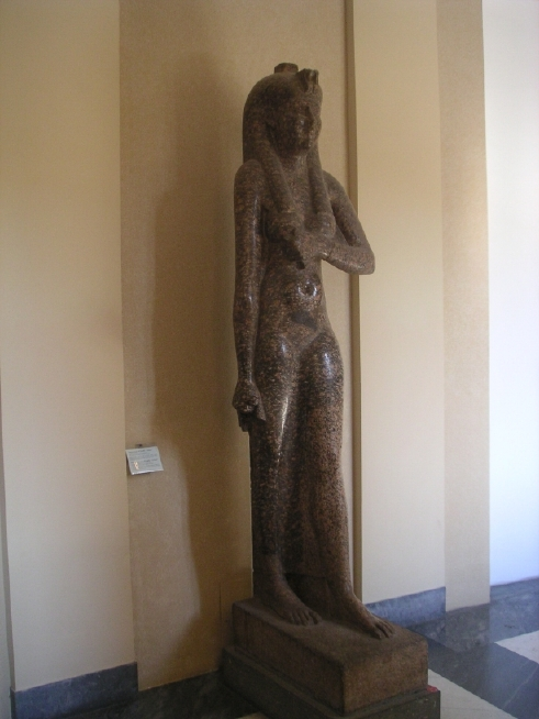 Colossal statue of Drusilla, sister of the Emperor Caligula; this statue, part of the collection of the Museo Gregoriano Egiziano, was found in the Gardens of Sallust on Pincian Hill in Rome (Cat. Nr. 22683)